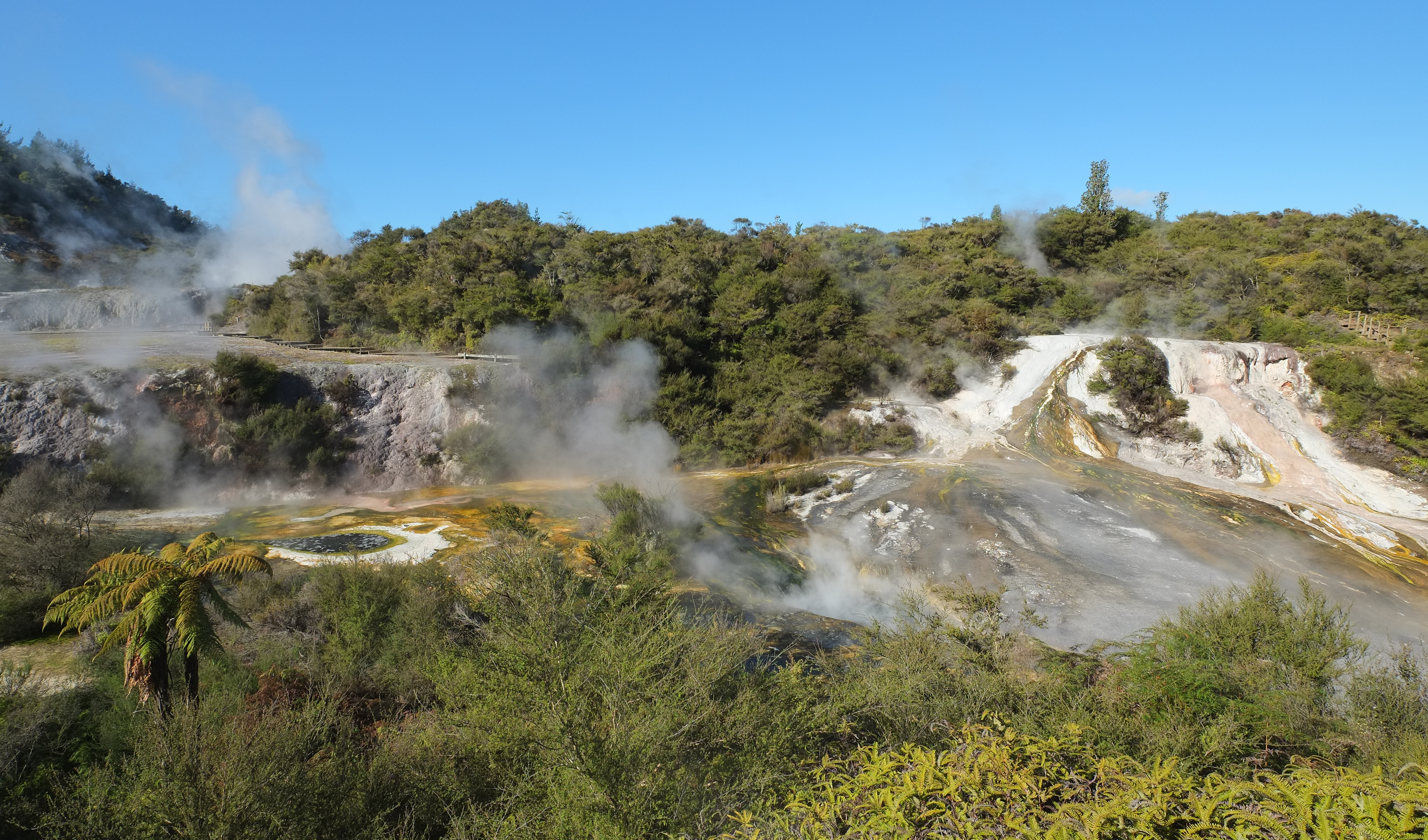 Panoramic view across Orakei Korako geothermal park - Golden Fleece Terrace on the far left, Map of Africa below, Rainbow Terrace and Cascade Terrace on the right